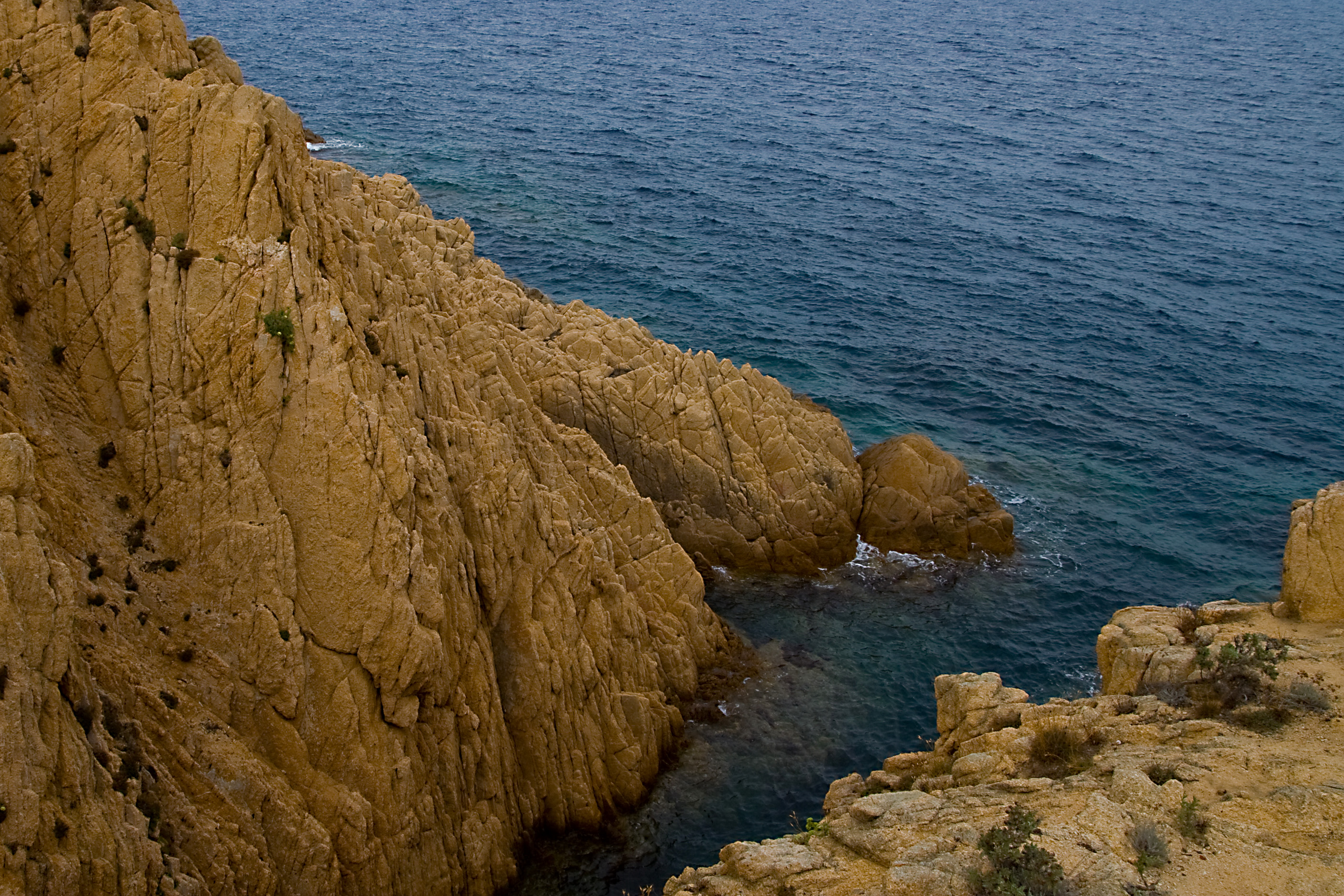 The typical red stones of the French riviera